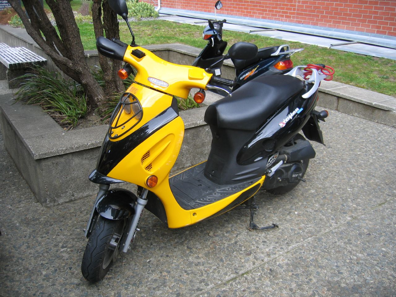 My Scooter! / I zoom around Wellington on this puppy! Imitation of Kymco Cobra / Top Boy